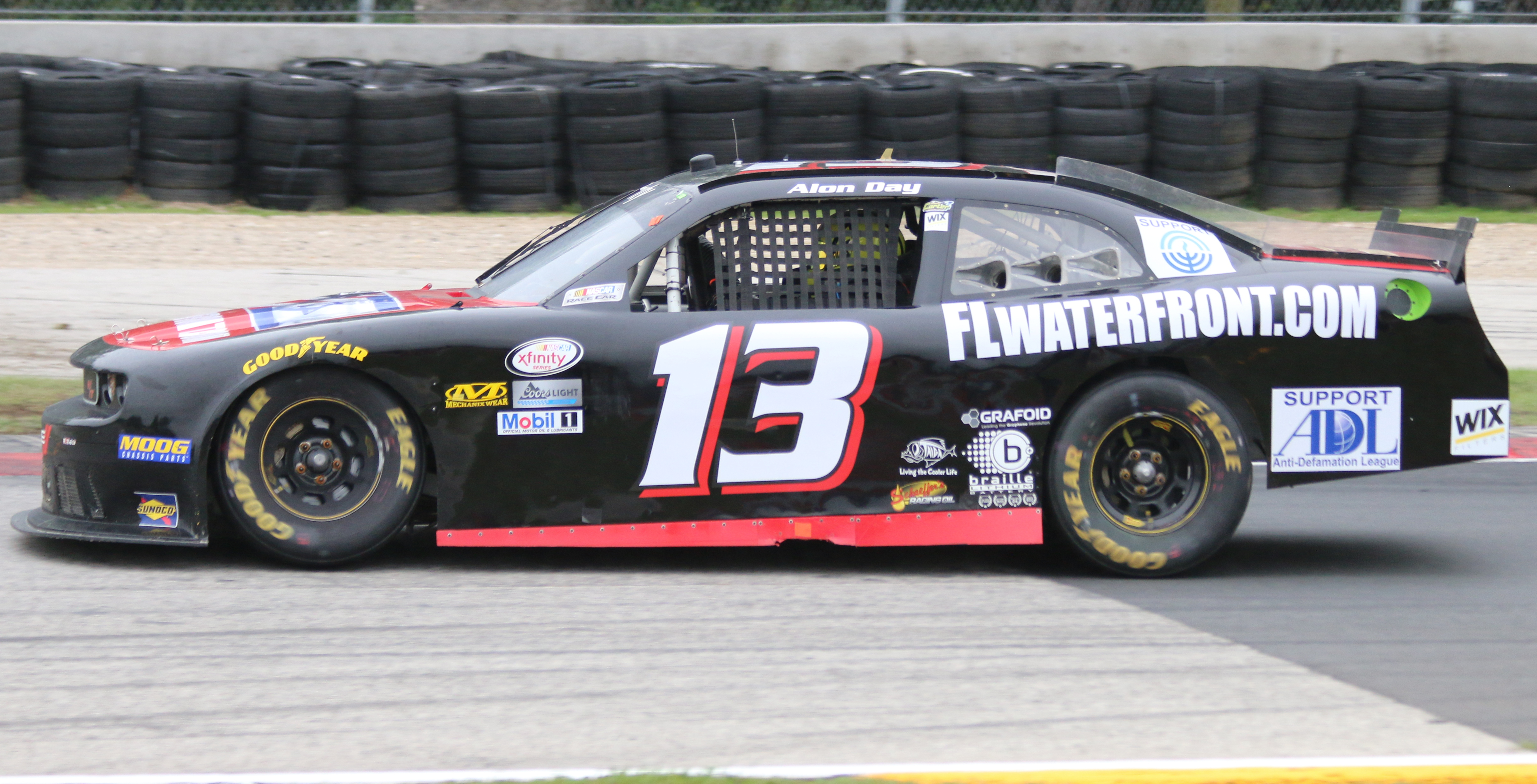 The Dodge Challenger of Alon Day at the NASCAR Xfinity Series Road America 180.